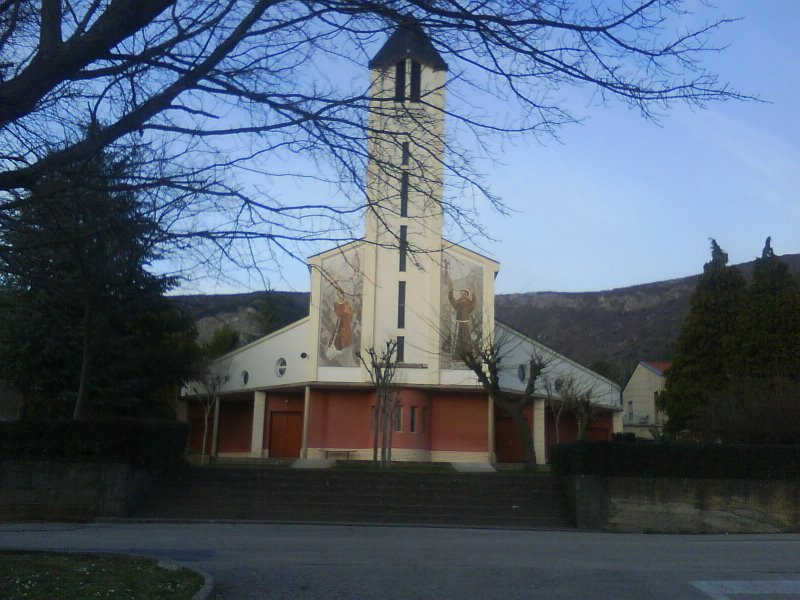 St. Stephen church in Gorica,municipality of Grude